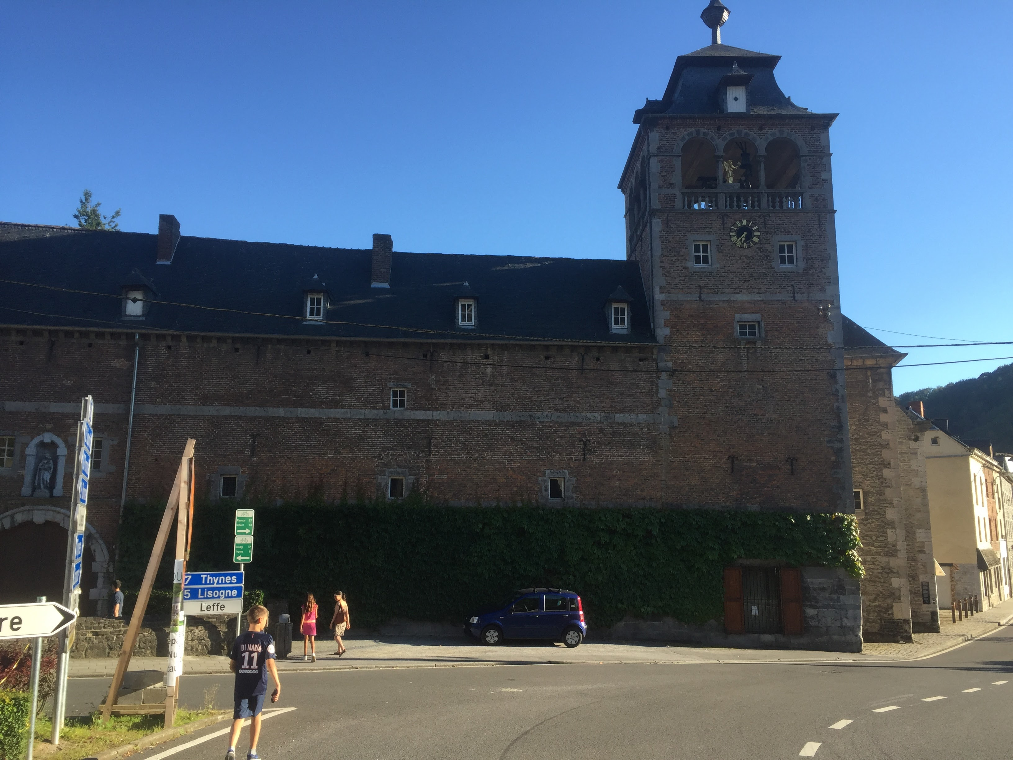 The original building from the Leffe beer logo. In the logo the 'picture' is taken from the other side (inside the complex). Here is another image.